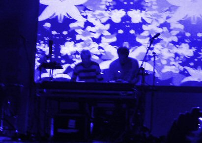 Lemon Jelly, live in concert, De Montfort Hall, UK